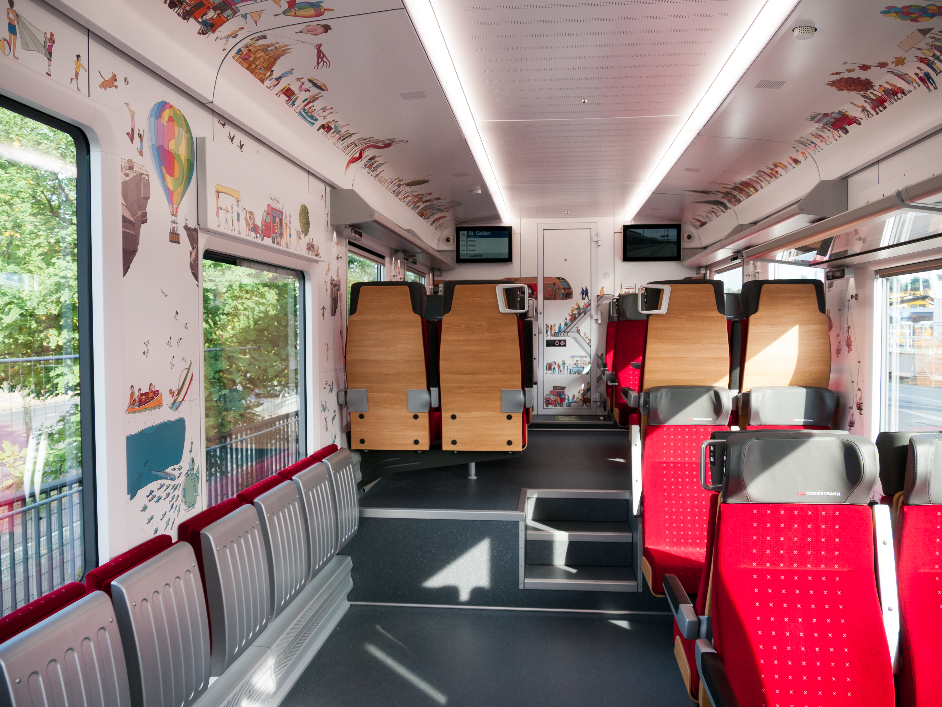 Stadler FLIRT Traverso train for Südostbahn (Switzerland) at Innotrans 2018 fair in Berlin, Germany